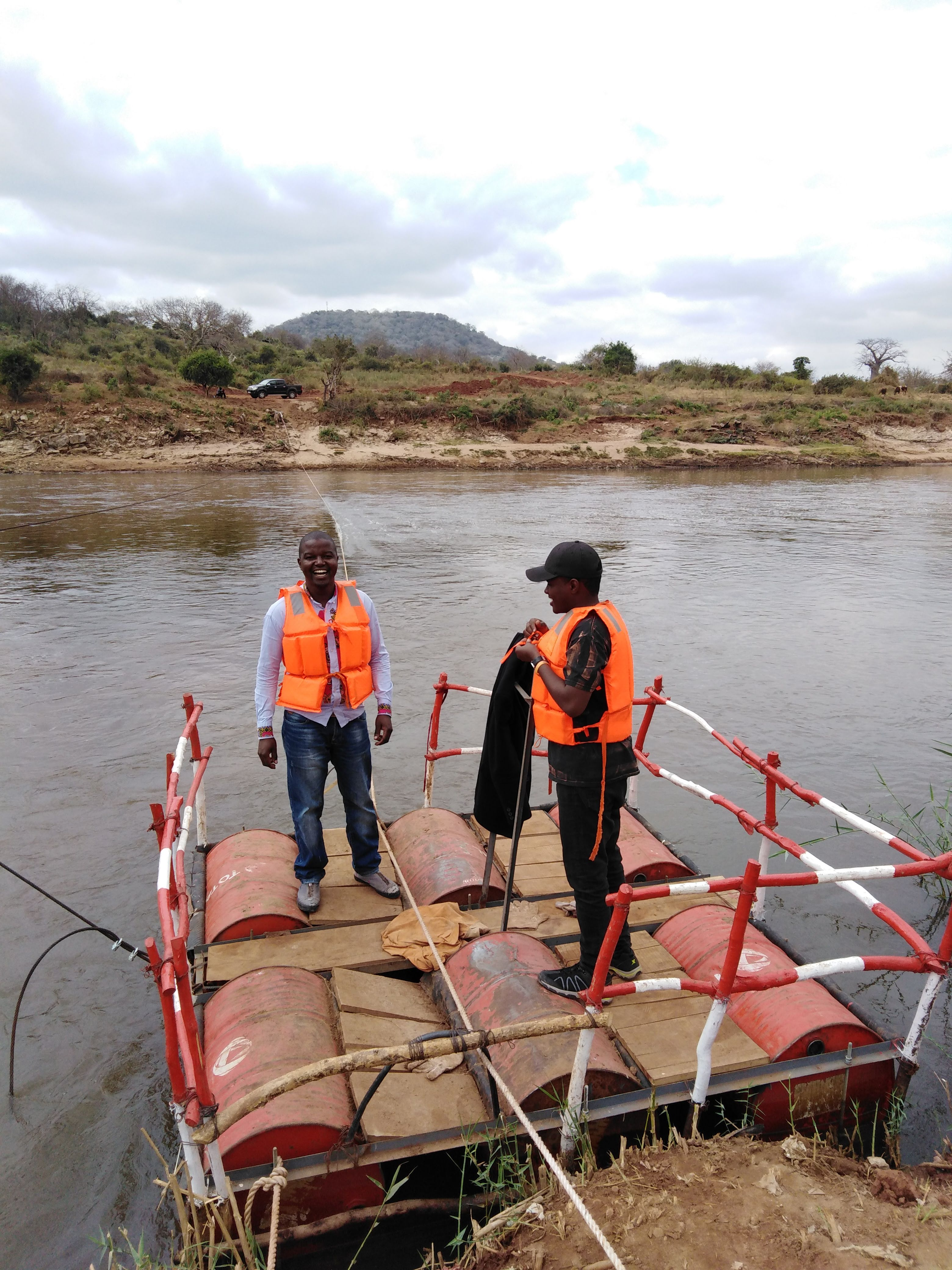 Life line raft connecting county of Makueni and Kitui on Thwake river, used to ferry people from either side of the crocodile infested river This is an image with the theme "Africa on the Move or Transport" from: Kenya